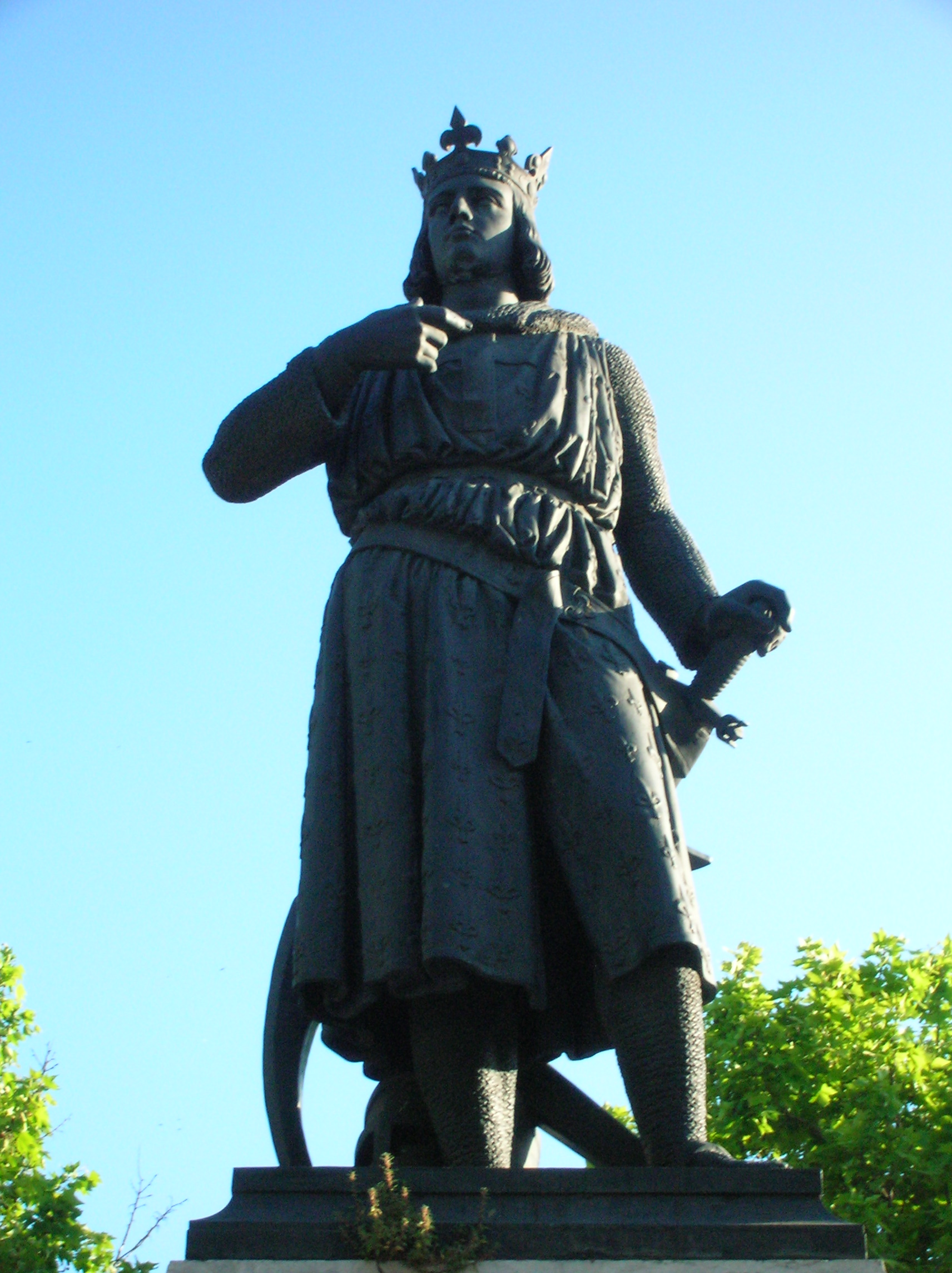 Statue of Louis IX de France (Saint Louis), in Aigues-Mortes.